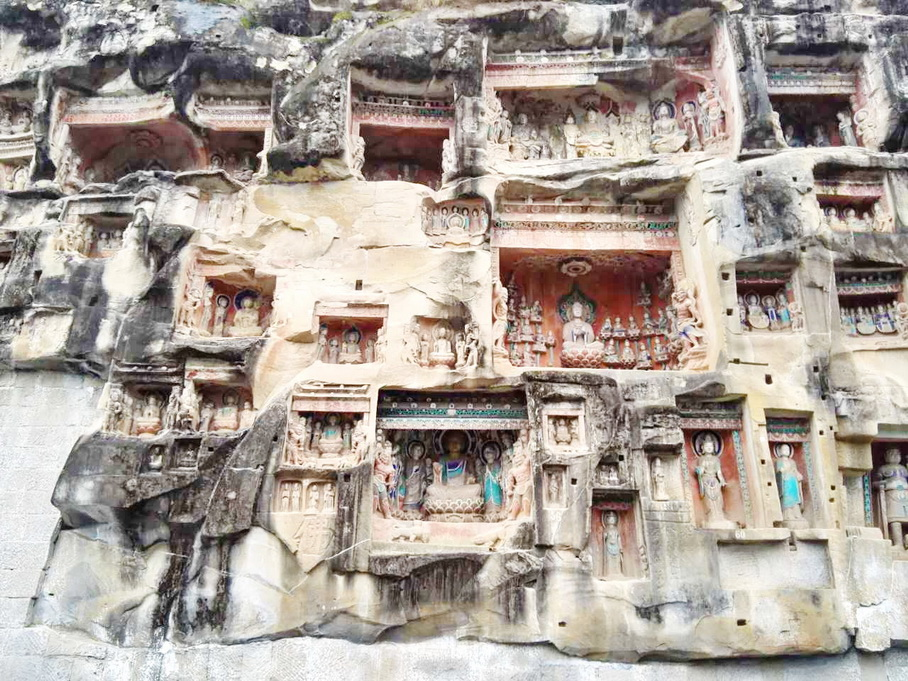 Shining temple. Bazhong. Nankan Cliff Sculptures. Painted sandstone, ca 500 - ca. 720, Tang and others dynasties.